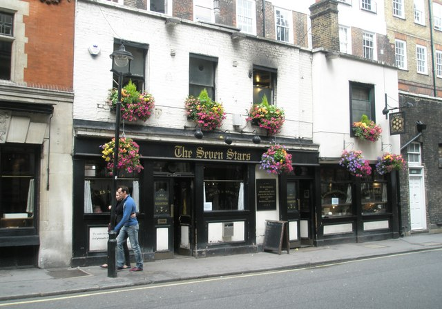 The Seven Stars in Carey Street One of the oldest pubs in London.